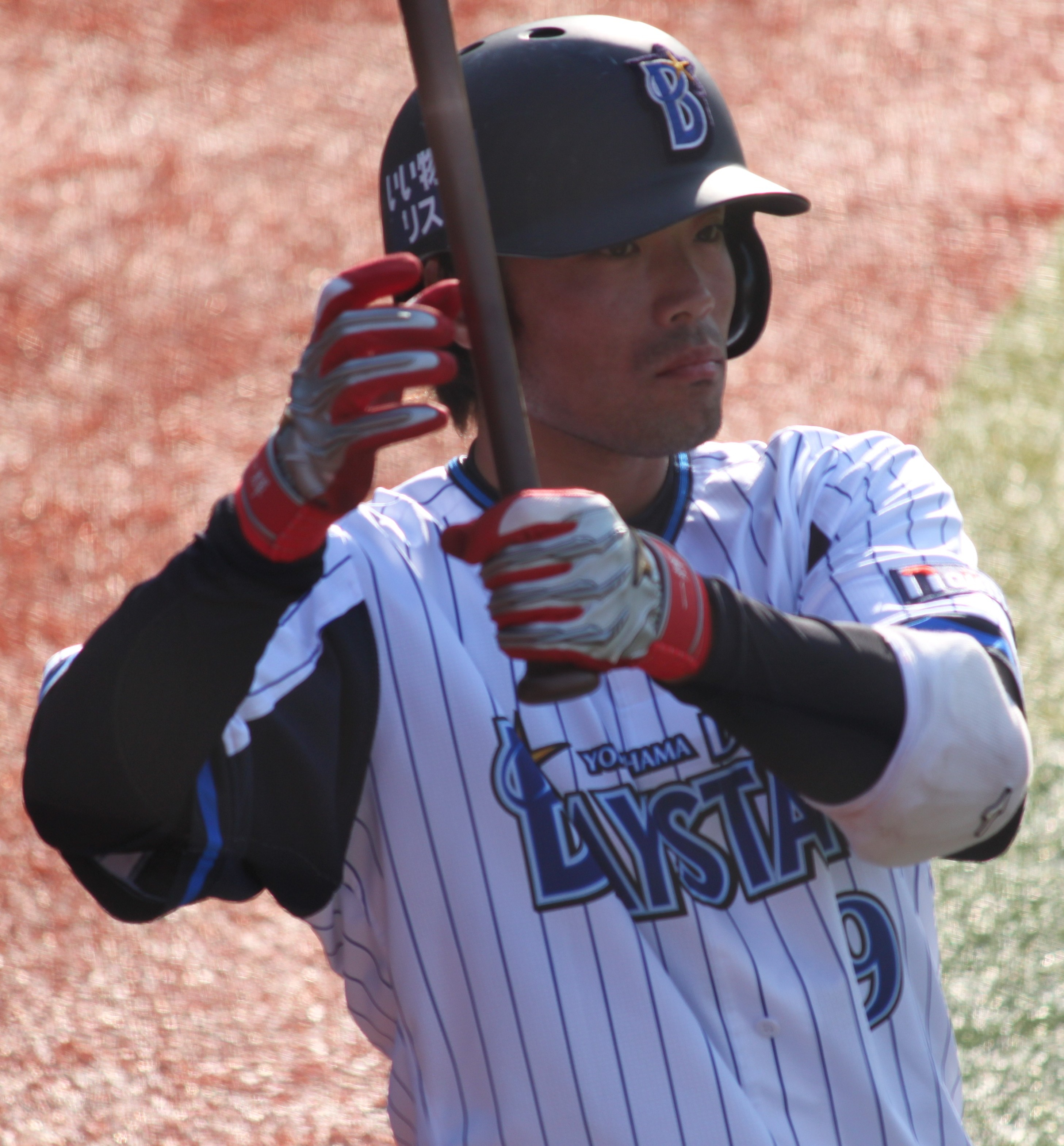 Ikki Shimamura, infielder of the Yokohama DeNA BayStars, at Yokohama Stadium.